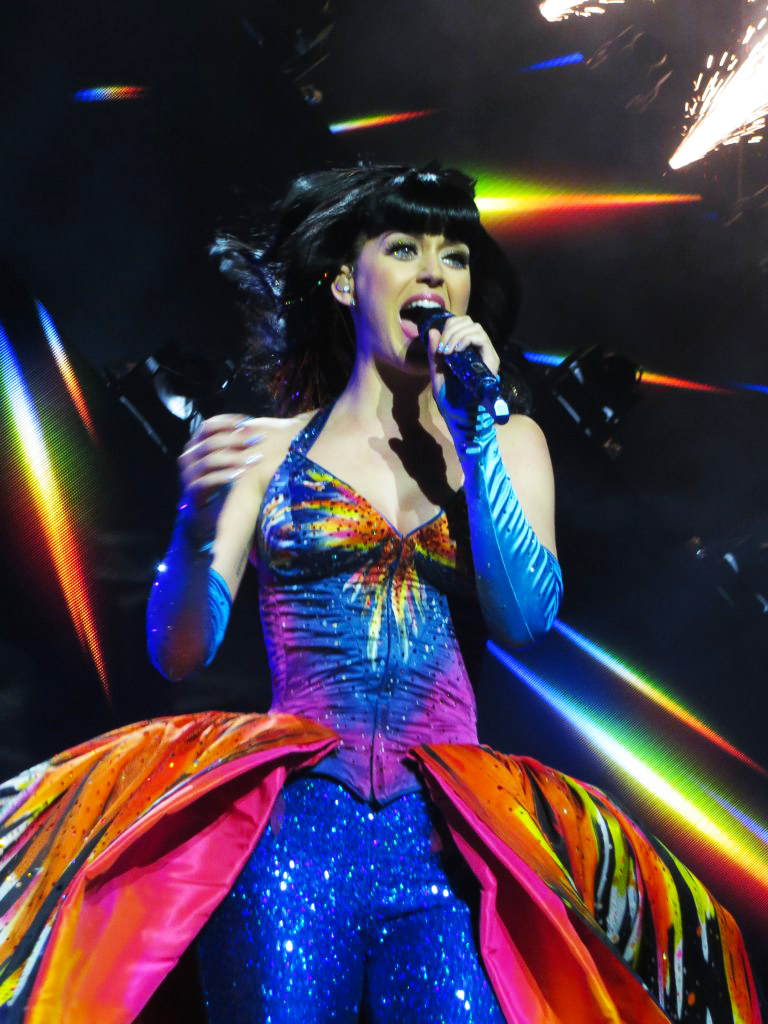 Katy Perry performing "Firework" at SSE Hydro, Glasgow, UK on 17 May 2014.